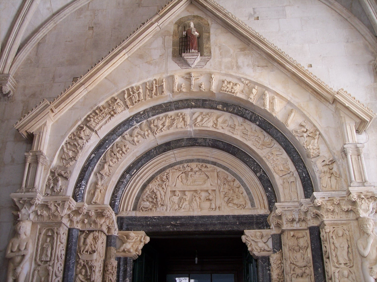 Cathedral of St. Lawrence in Trogir (Croatia)